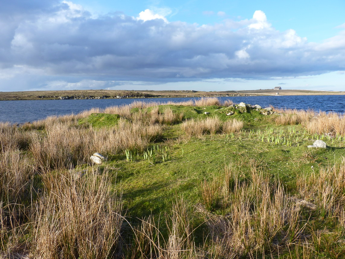 The settlement Eilean Dhomhnaill in Loch Olabhat